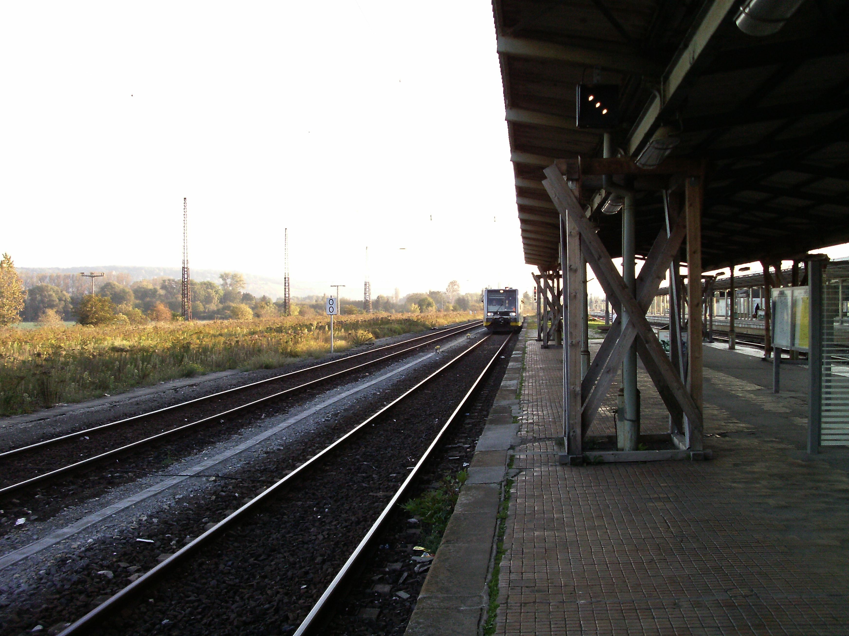 Train of the Burgenlandbahn arriving at Naumburg central station (district of Burgenlandkreis, Saxony-Anhalt)